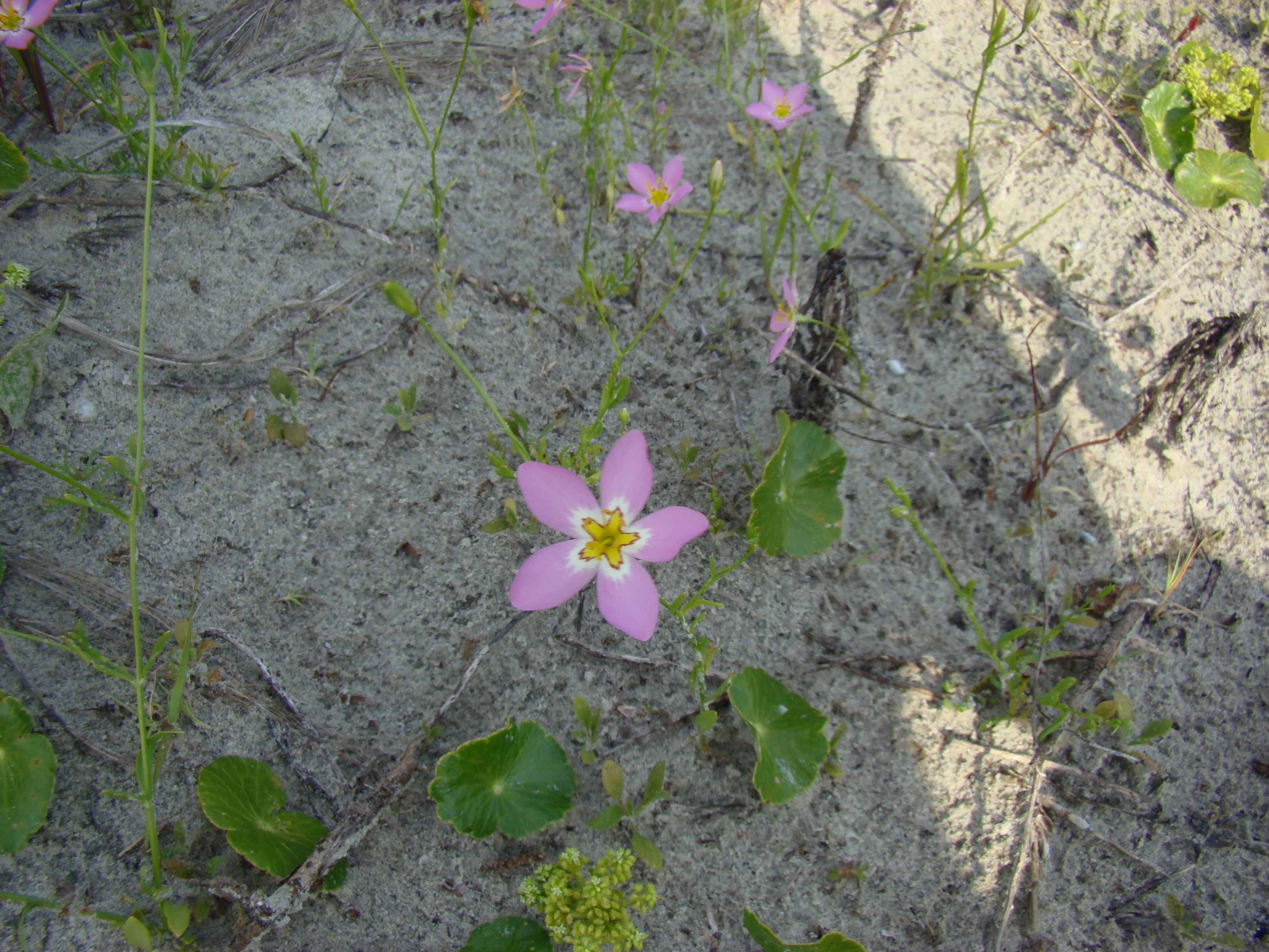 Full camera image of a picture taken to illustrate the Marsh pink. The cropped version is at File:Marsh_pink.jpg picture taken at Fripp Island, South Carolins, USA on 2009-06-26 at about 1700EDT.